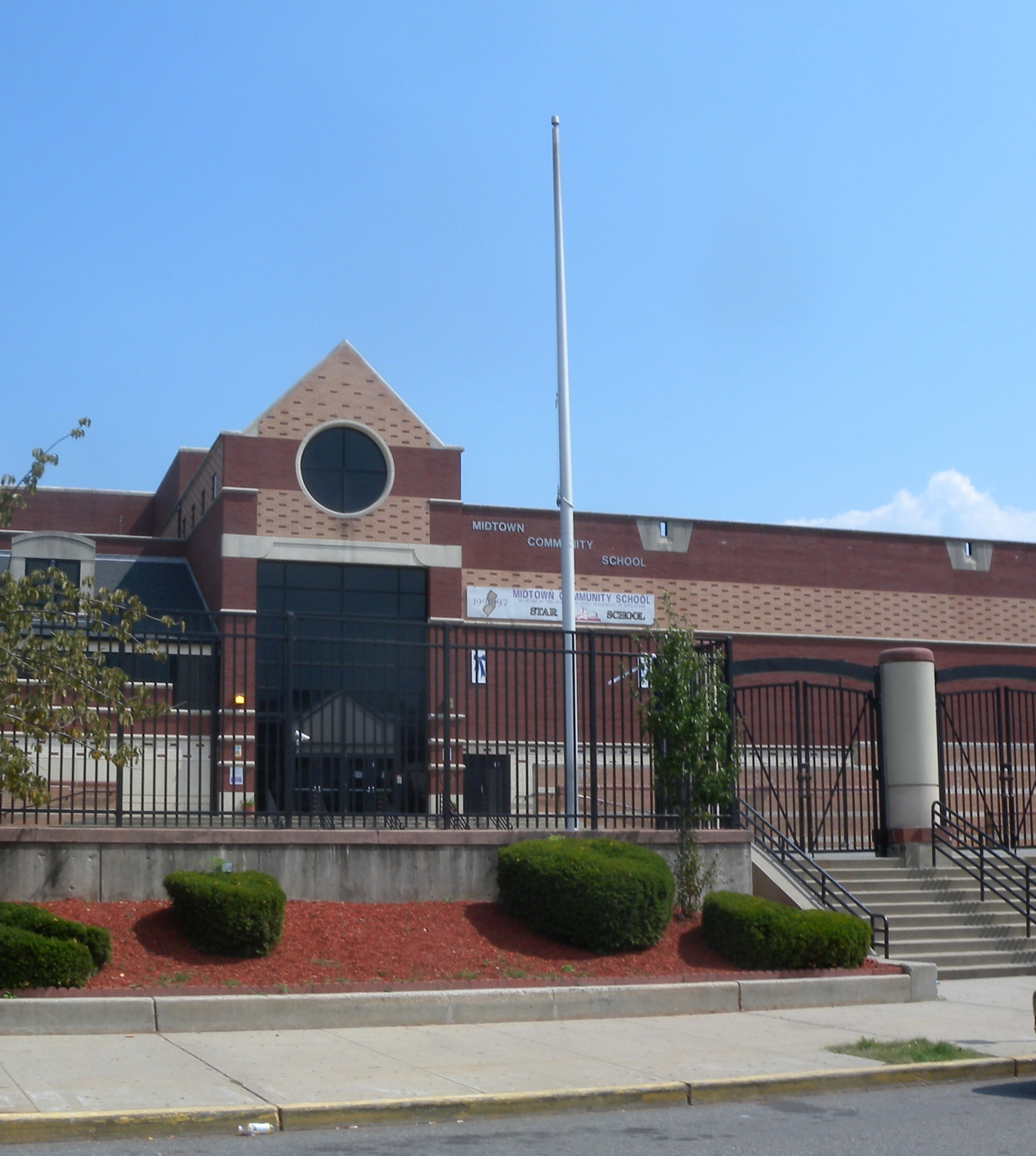 Looking southeast from Ave A at Bayonne Midtown Community School on a sunny early afternoon.